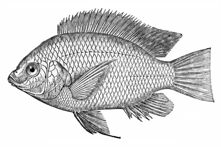 Oreochromis niloticus niloticus Syn.:Chromis niloticus